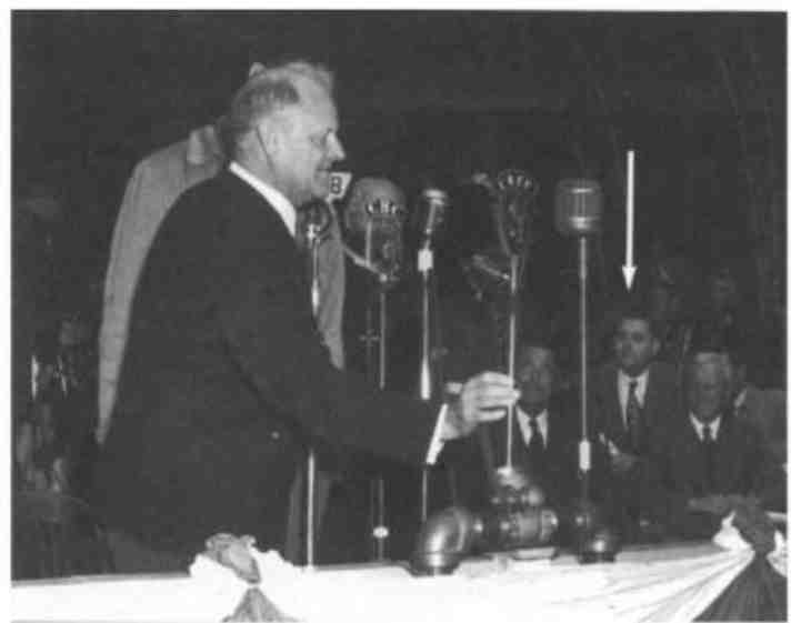 Official launch of the first Pile for the TTC's first subway.